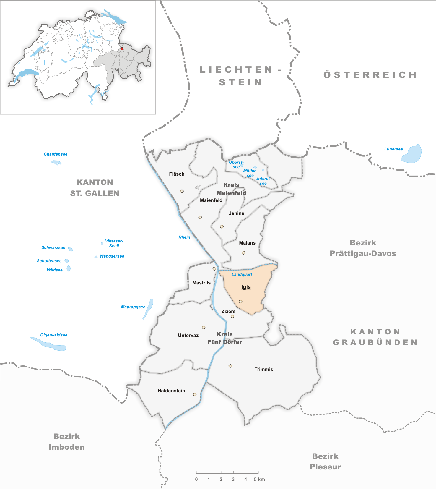 Municipality Igis